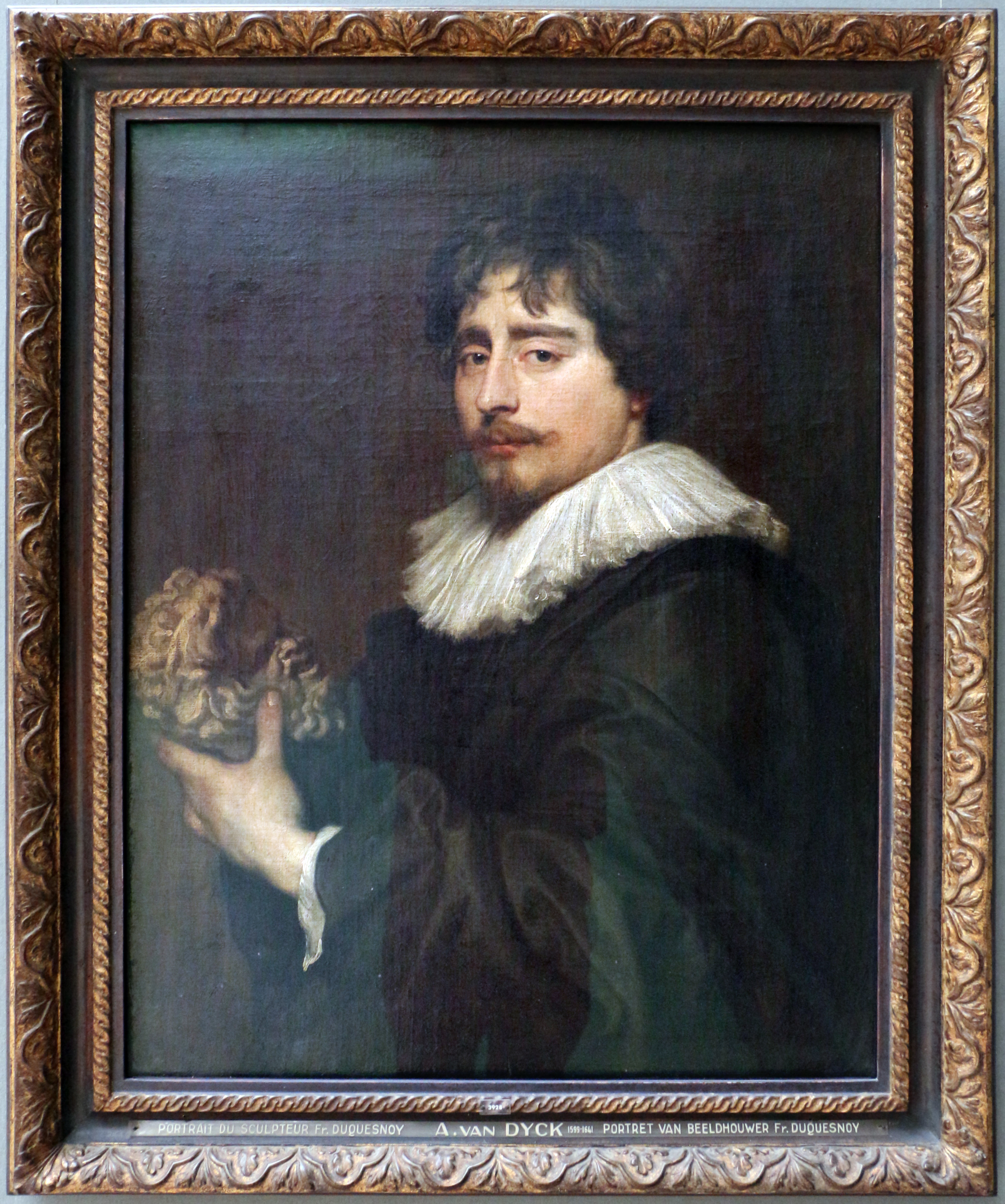 paintings in the Royal Museums of Fine Arts of Belgium